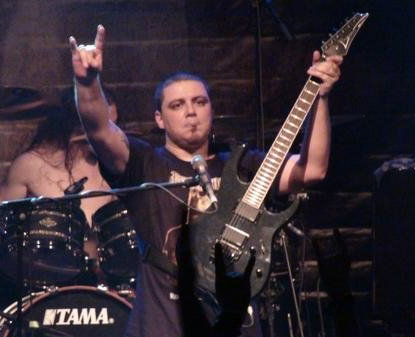 Is Patrci Mameli from Pestilence.